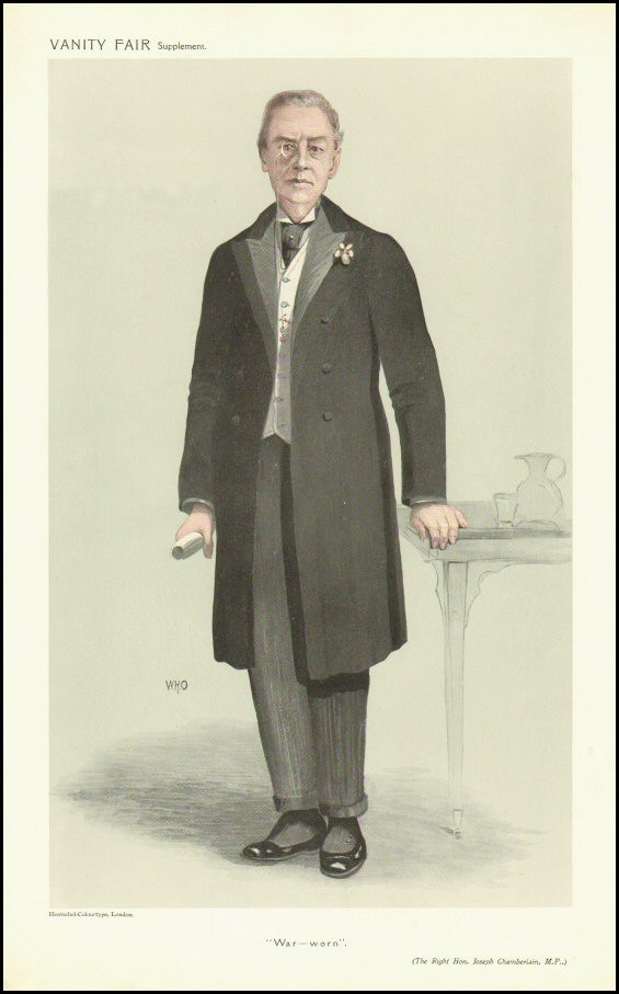 Caricature of The Rt Hon Chamberlain MP FRS DCL LLD JP. Caption read "War-Worn".